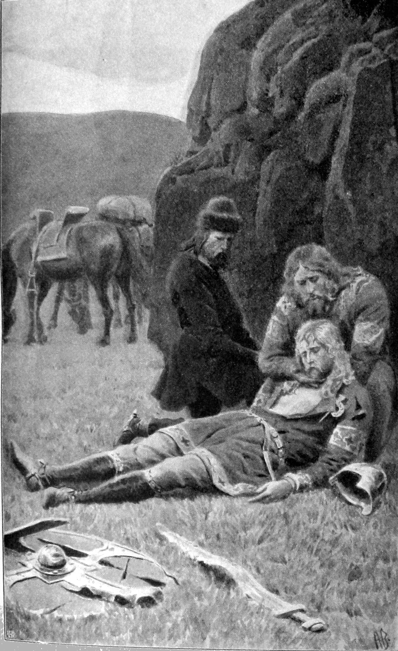 Illustration to Laxdœla saga, chapter 49. Bolli Þorleiksson holds the dying Kjartan Ólafsson, his cousin and foster-brother, in his harms after dealing him a fatal blow.